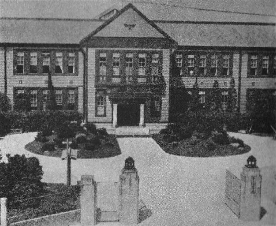 The main gate of Second Higher School, located in Miyagi Prefecture, Japan.